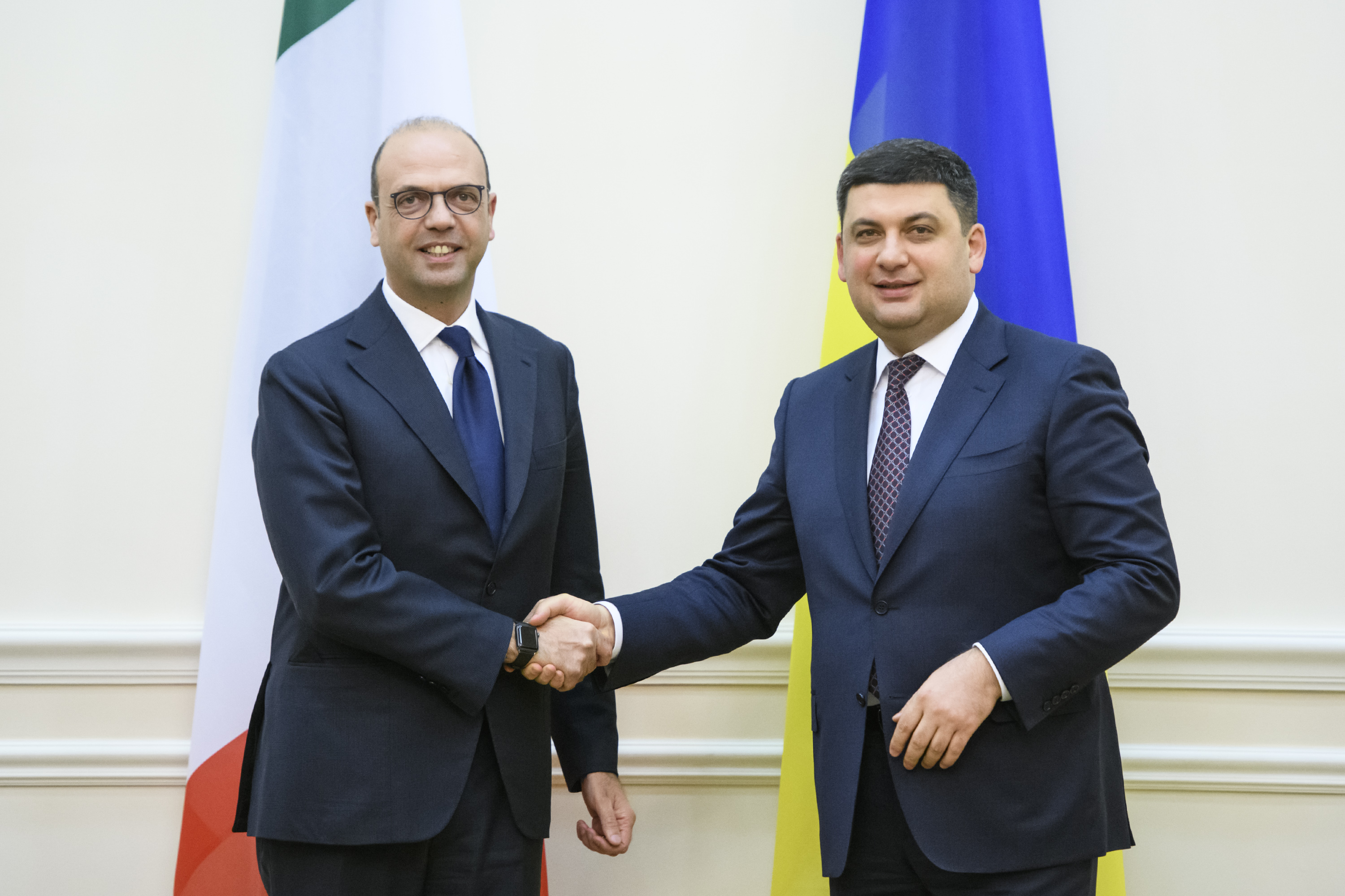 Прем’єр-міністр України Володимир Гройсман зустрівся з Міністром закордонних справ Італії Анджеліно Альфано опубліковано 30 січня 2018 року о 18:00